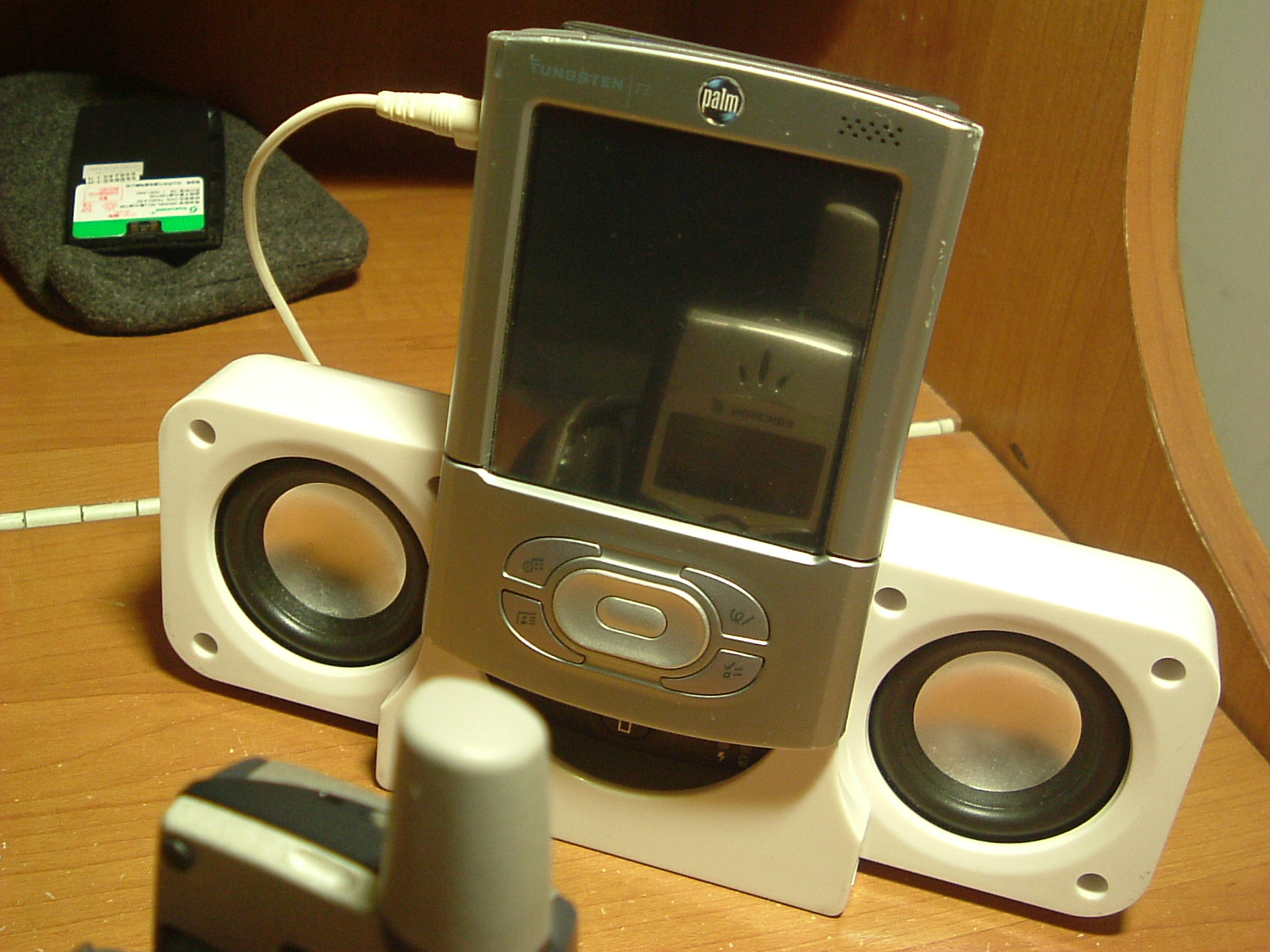 Tungsten T3.